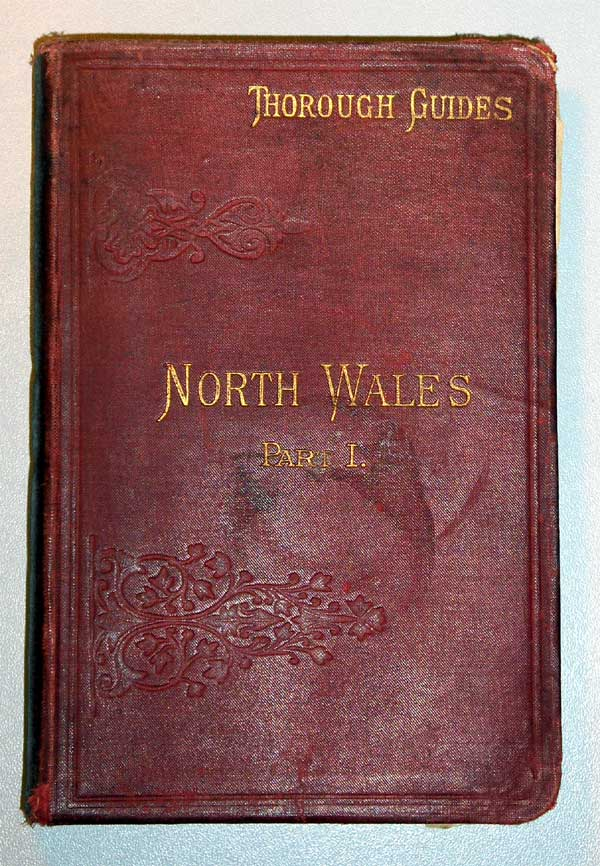 Cover of the 1895 edition of M. J. B. Baddeley and C. S. Ward's "Thorough Guide" to North Wales (volume 1)